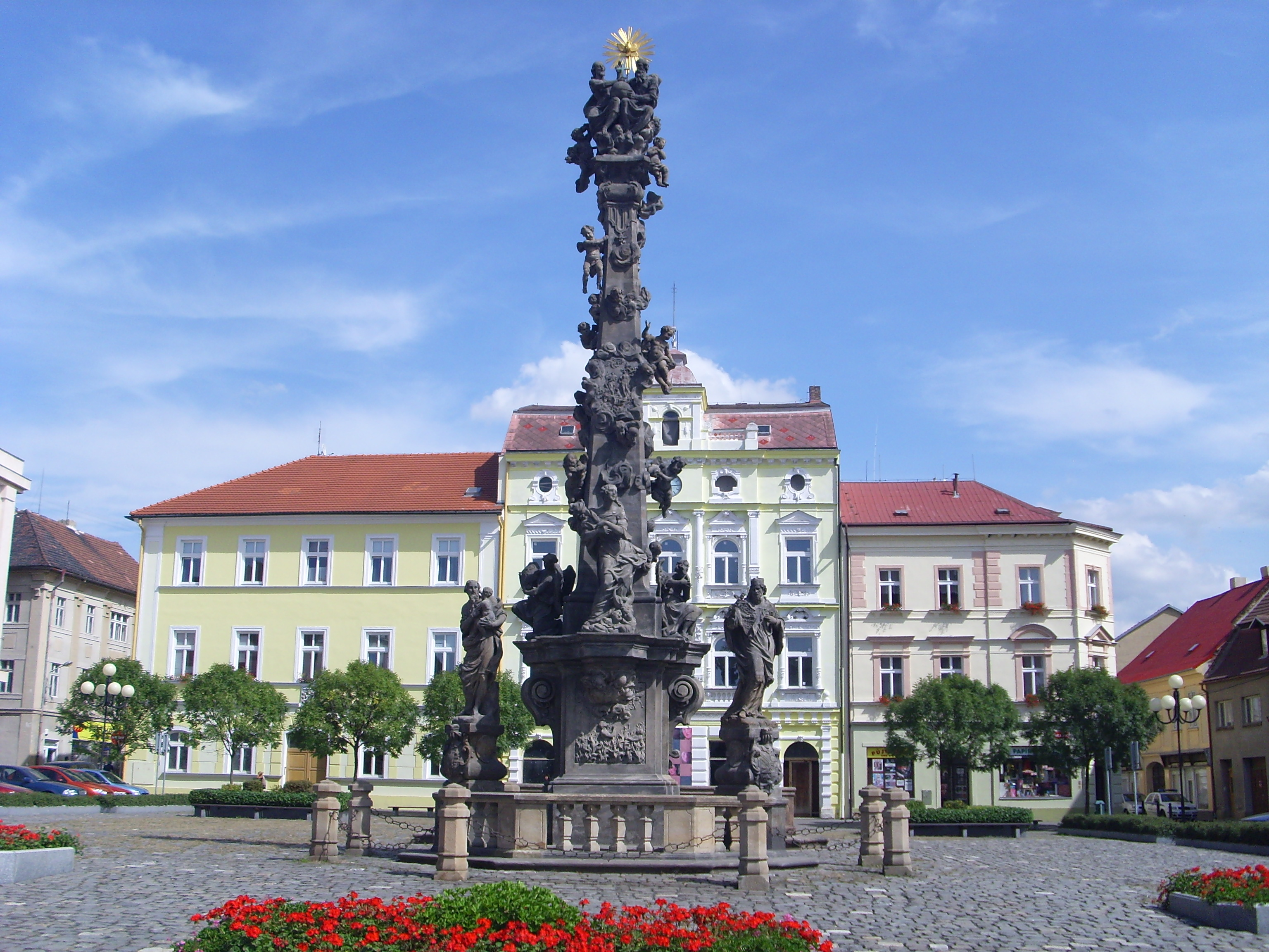 Plague Pillar in Duchcov in Czech Republic